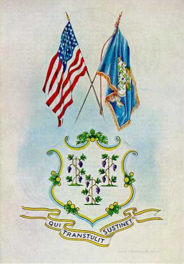 This is an image of the Connecticut Coat of Arms